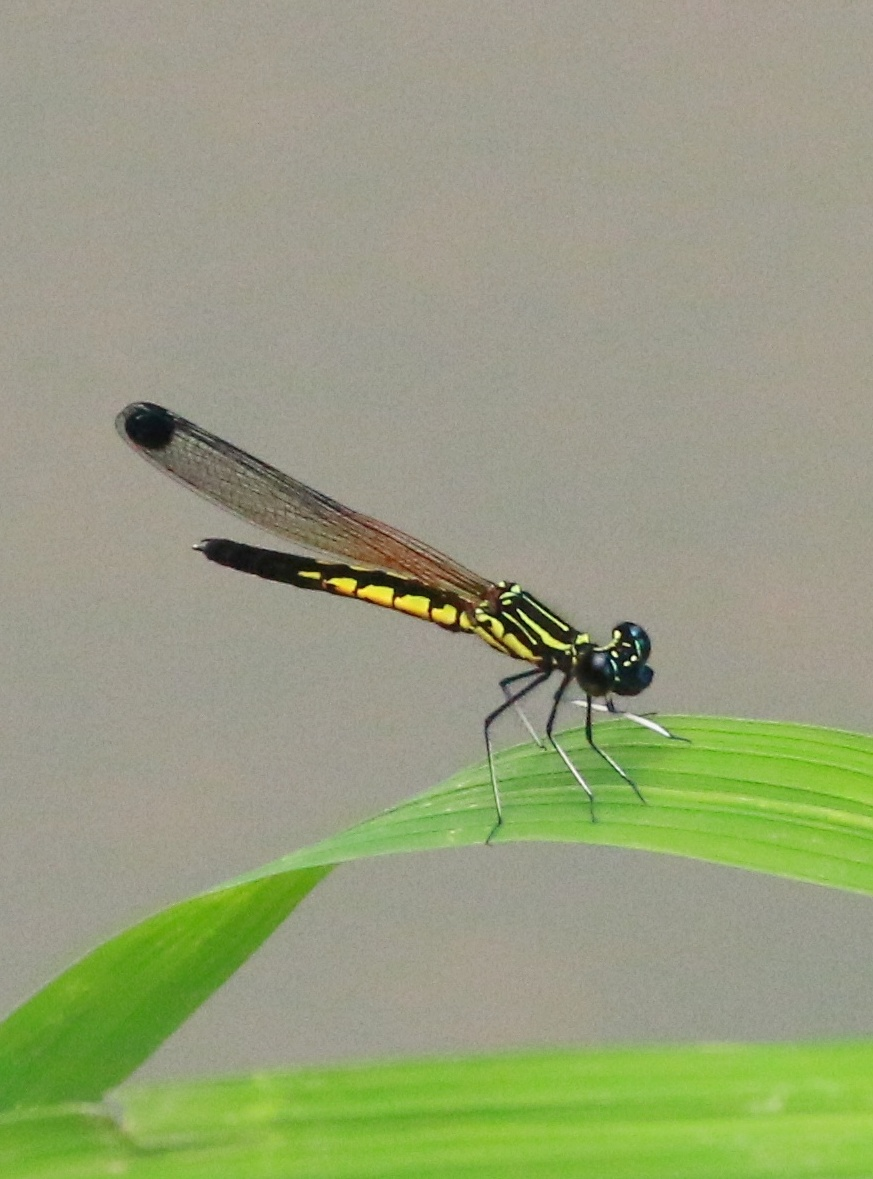 Southern Heliodor, Libellago indica